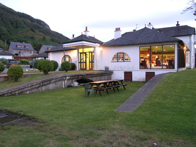 Kentallen railway station Original description: Once a railway station, now a hotel / restaurant